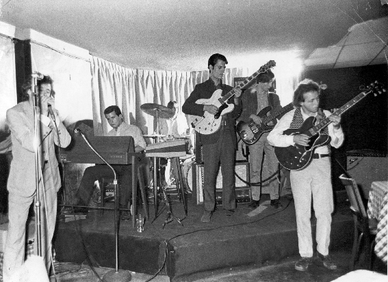 American blues band: The Prime Movers (This is a publicity shot for my band. I have the rights to put this image online.)